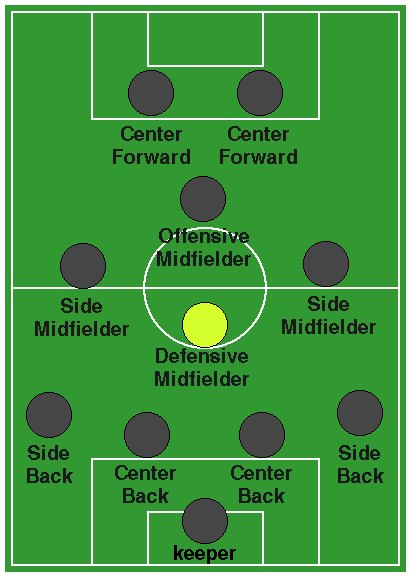 Position of DefensiveMidfielder